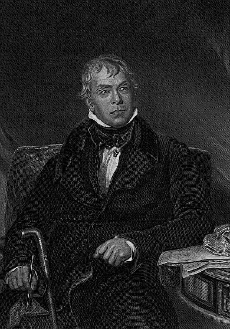 Sir Walter Scott, Baronet by William Humphrey, after the portrait by Sir Thomas Lawrence, 1844, mezzotint